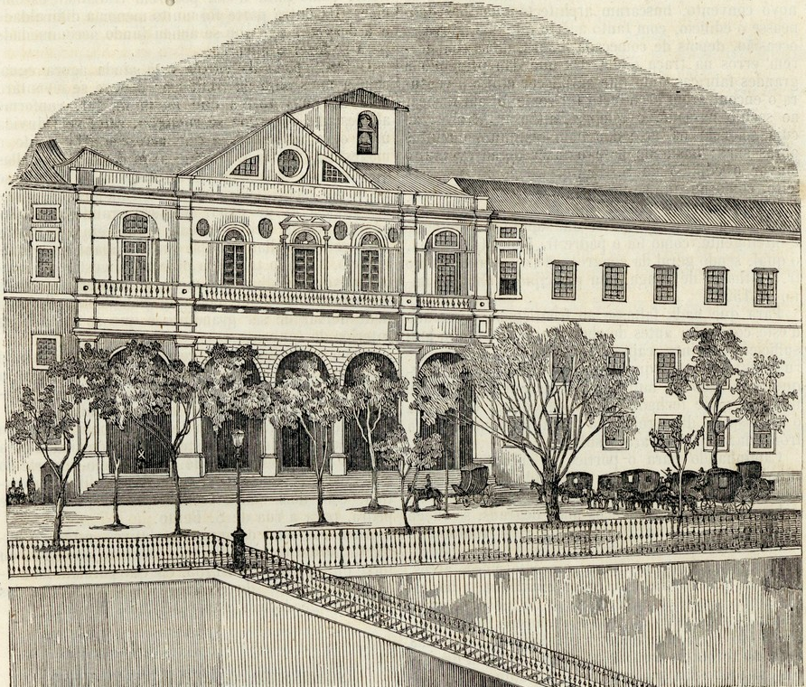 The Palace of the Courts, on the building of the extinct Monastery of Saint Benedict (currently, the Assembly of the Republic, or the Palace of Saint Benedict).